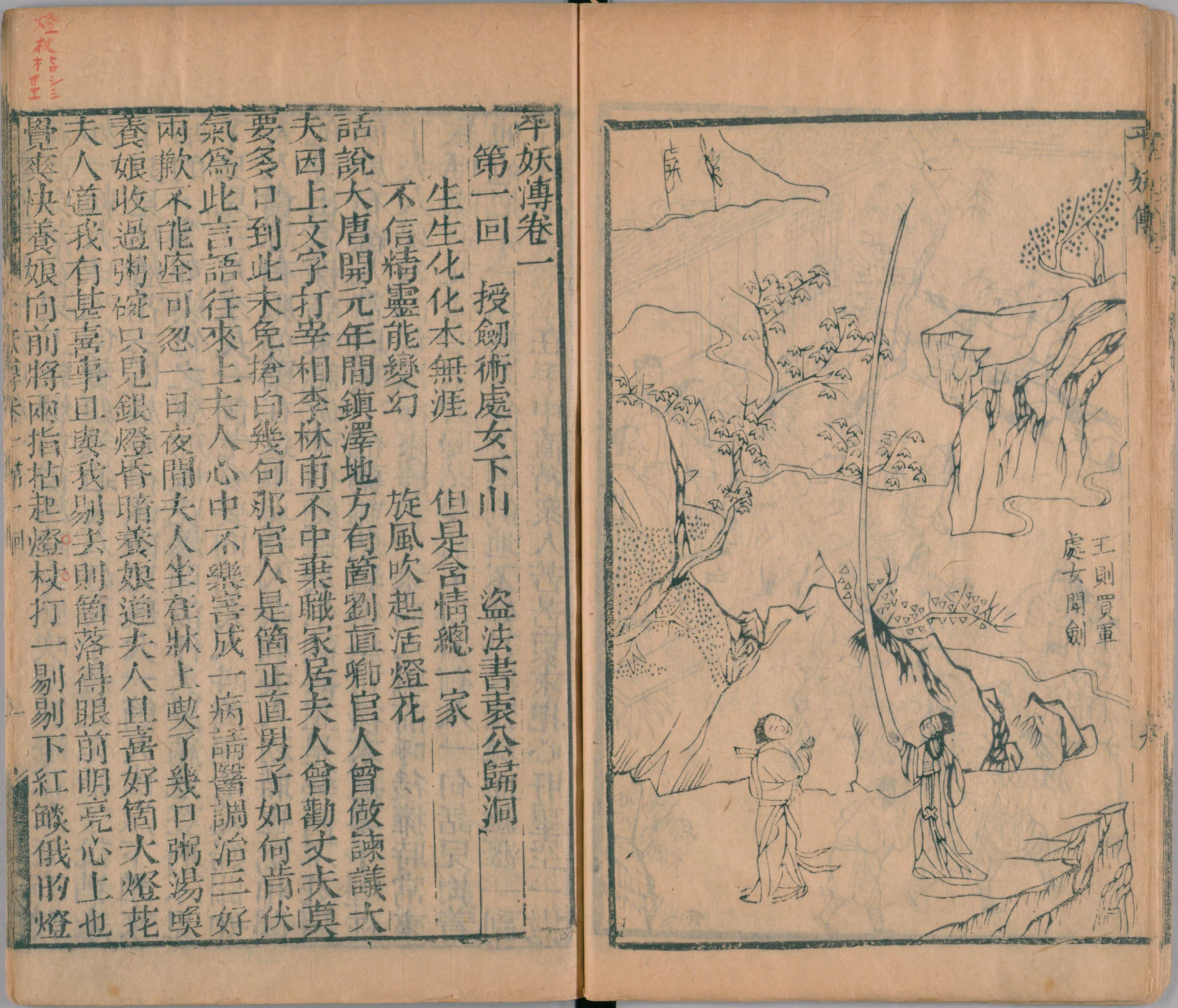 part 1 to part 29, by Luo Guanzhong (of the Yuan Dynasty, China), added by Feng Menglong (of the Ming Dynasty, China), printed in 1812 (17th year of the Jaqing Era of the Qing Dynasty, China), 6 books, 24.0 by 15.5cm. Heiyo den (Ping yao zhuan), part 29 to part 40, by Luo Guanzhong (of the Yuan Dynasty, China), added by Feng Menglong (of the Ming Dynasty, China), copied in the 7th year of the Tenpo Era (1836), 6 books, 23.1 by 14.6cm A Chinese novel. These books were previously owned by Kyokutei Bakin. Chinese printed books are complemented with manuscripts. Some of the novels written by Bakin are influenced by Chinese novels.